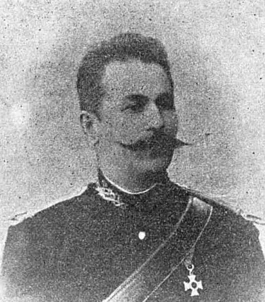 General doctor Nicolae Vicol - chief of the Medical Service of the Romanian Armed Forces, in the WWI